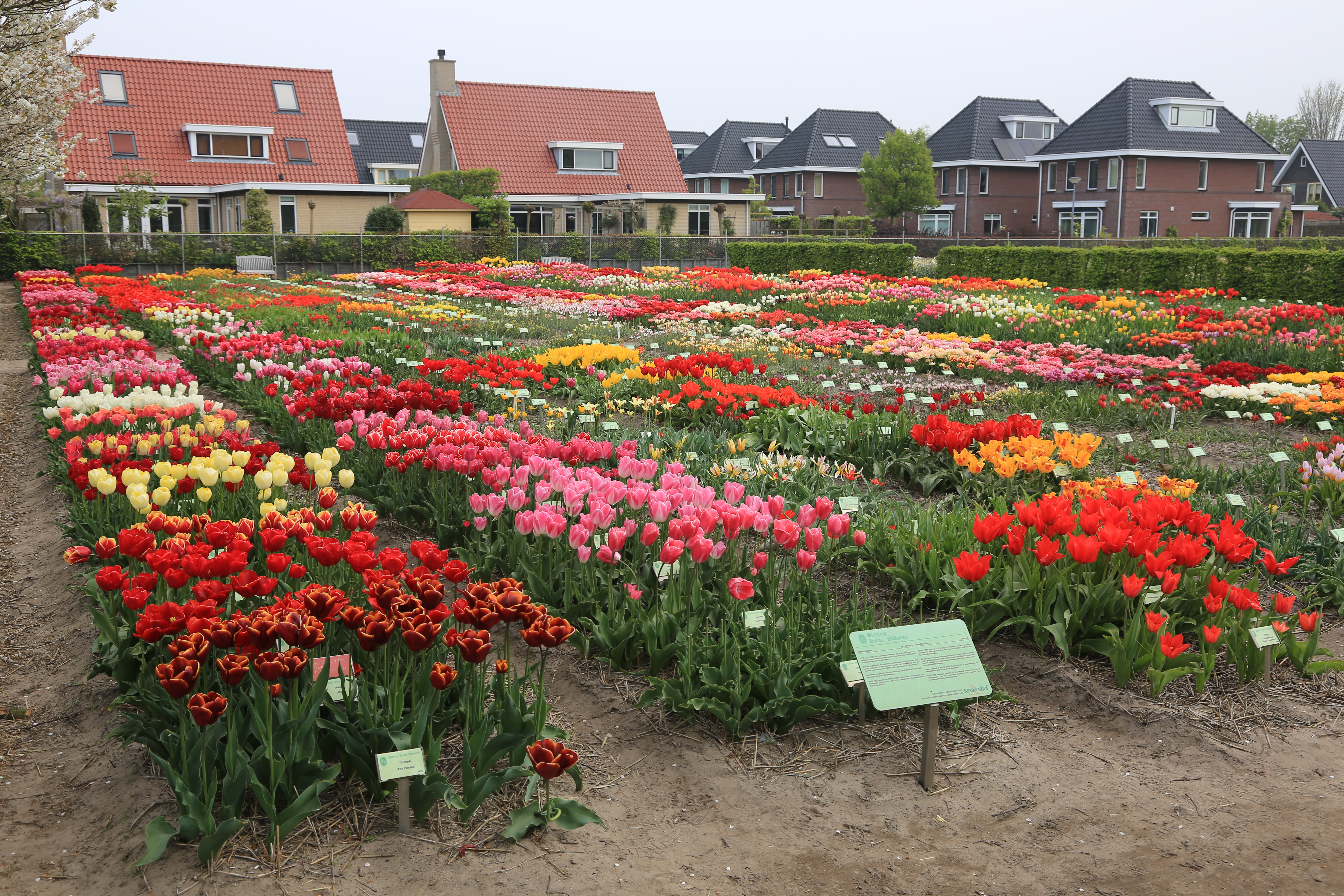 Hortus Bulborum, a Dutch foundation that conserves historic cultivars of spring flowering bulb- and tuber crops. Limmen, Noord-Holland, Netherlands.